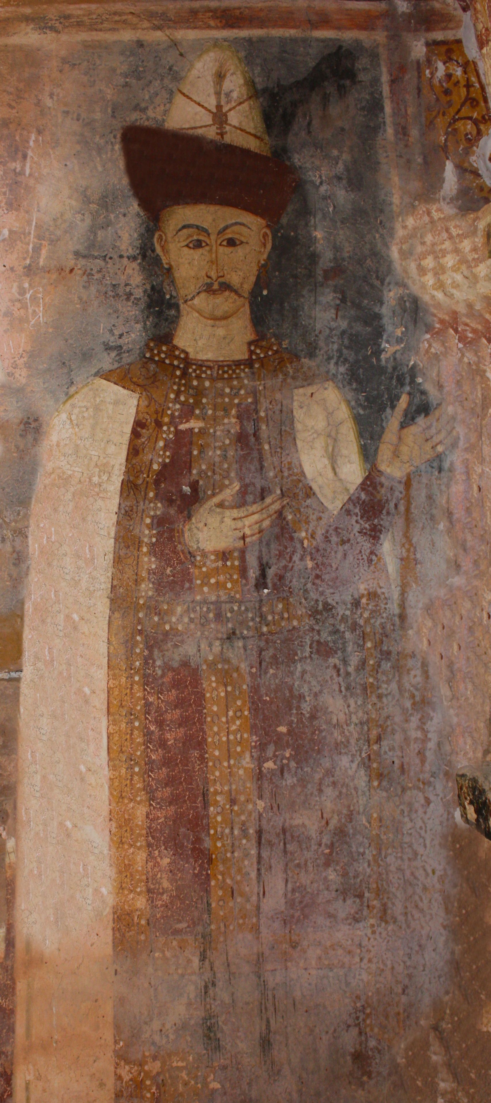 The icon of George Lipartiani from Tsalenjikha Cathedral. Tsalenjikha, Samegrelo, Georgia